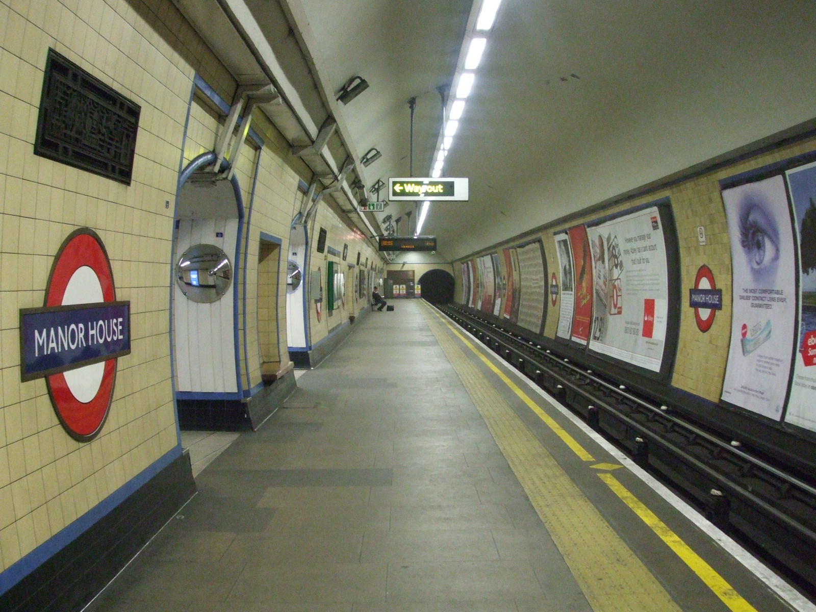 Manor House tube station northbound platform looking south